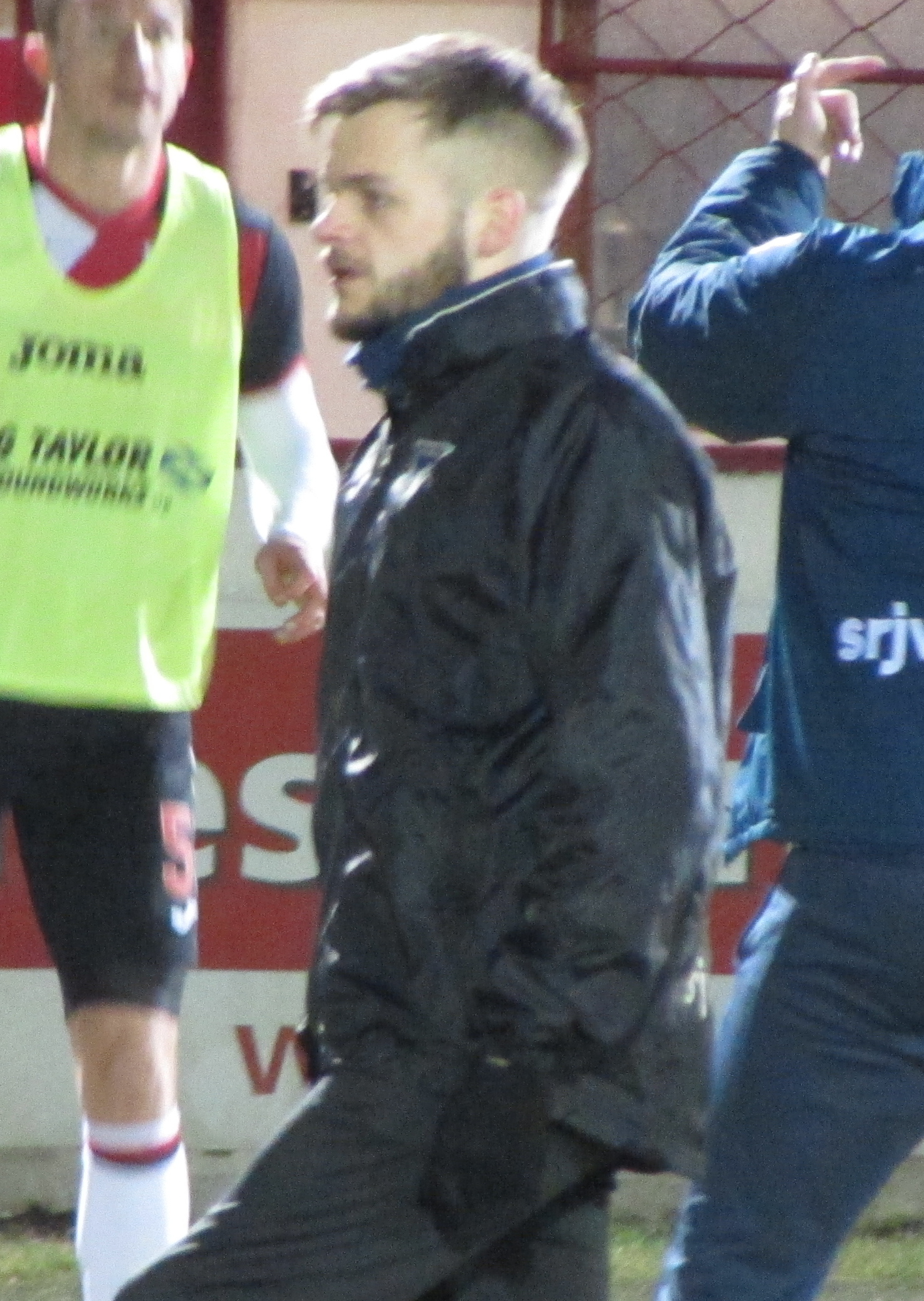 Andy Ryan, pre-match for Dunfermline Athletic at Glebe Park, Brechin (20/03/18)